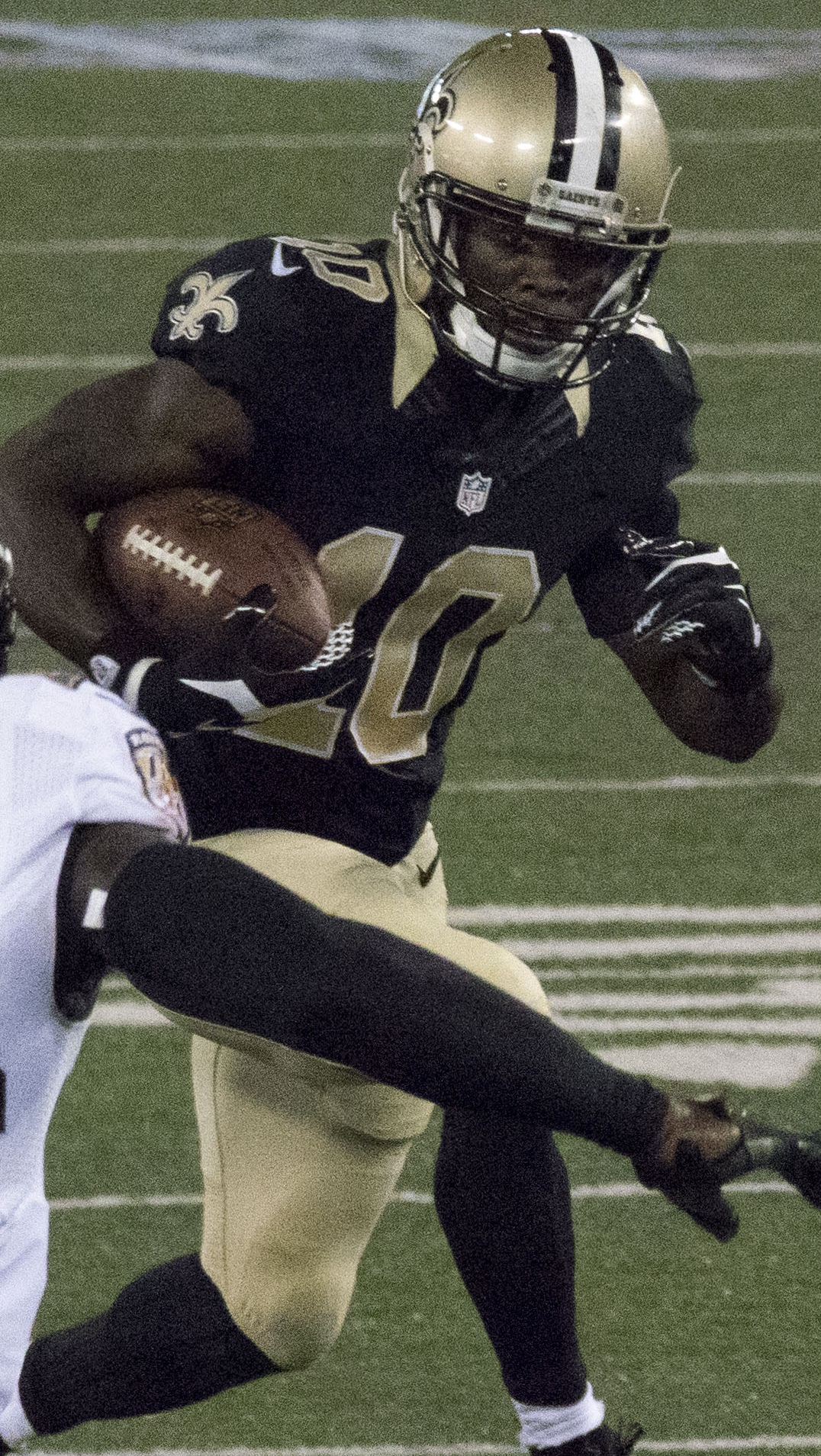 Saints at Ravens 8/13/15